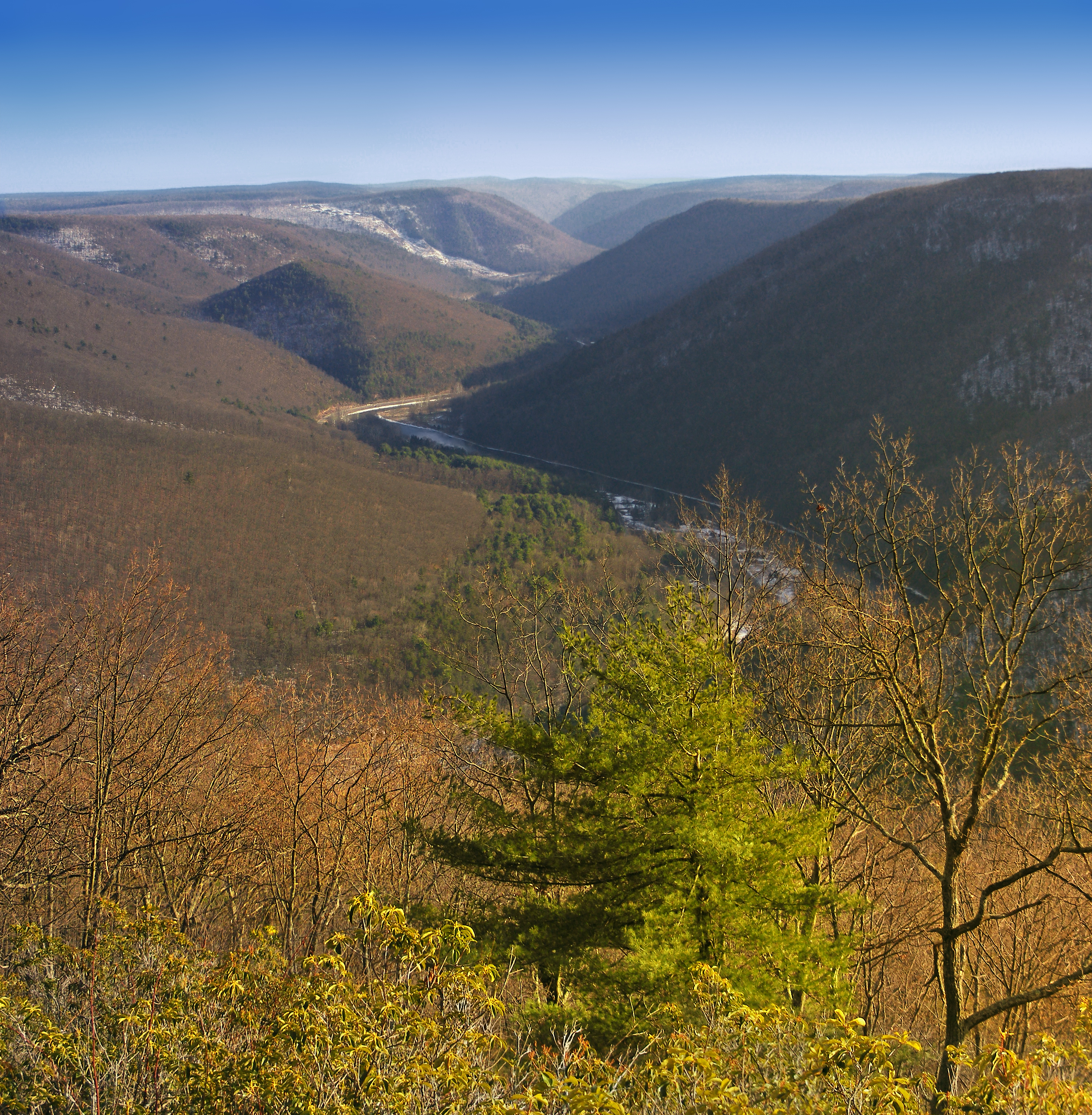 Pine Creek Gorge, Clinton and Lycoming Counties, as seen from the Black Forest Trail at Hemlock Mountain (elevation: 2080 feet [634 meters]).